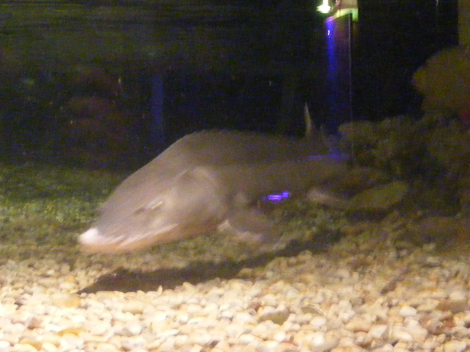 Siberian sturgeon at Brighton Sealife Centre